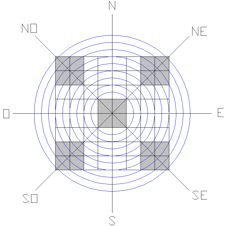 Gráfico demonstrativo do comportamento de ondas.